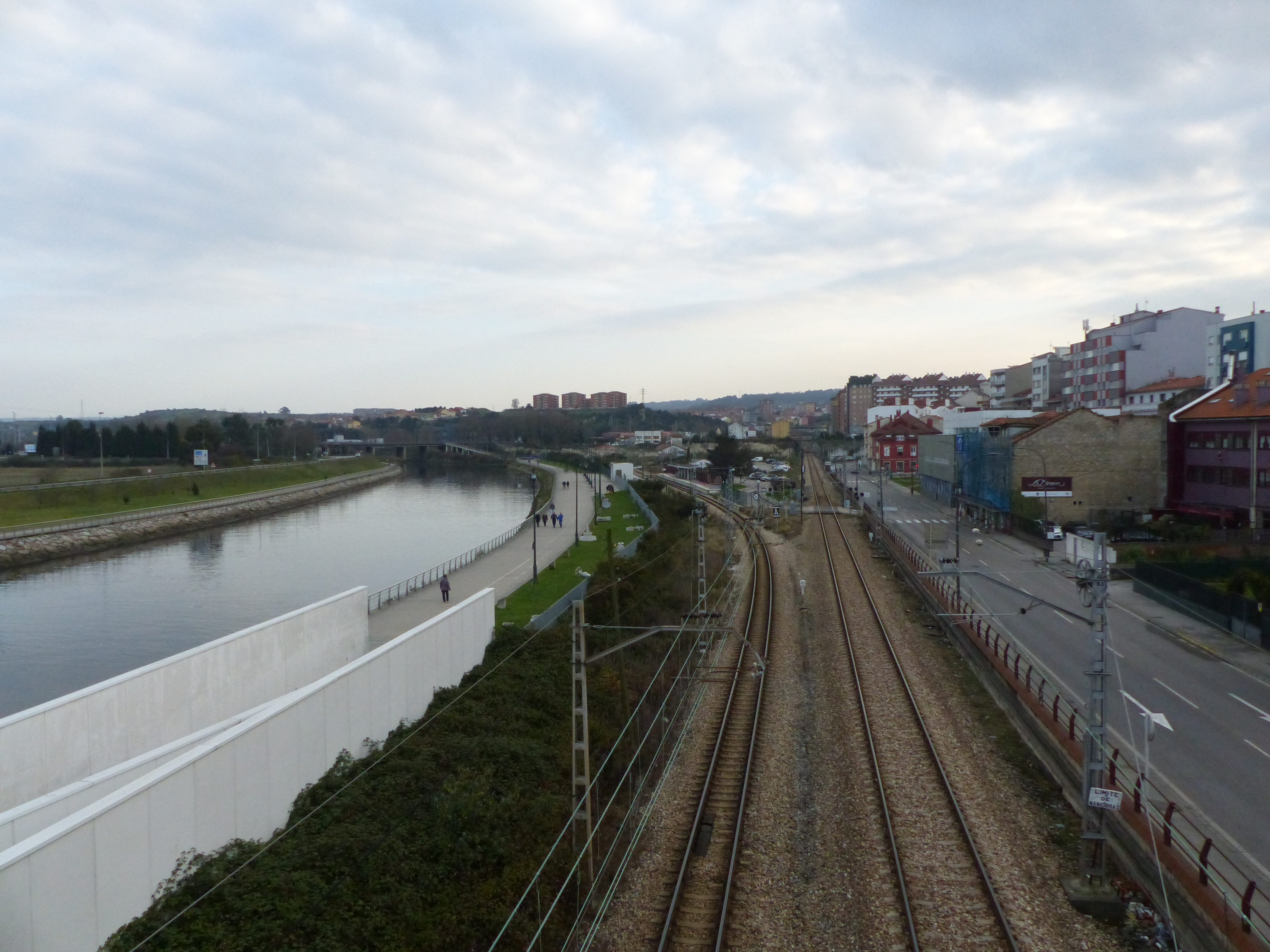 Railway infrastructure in Avilés, with both the metre gauge as the Iberian gauge railway line.